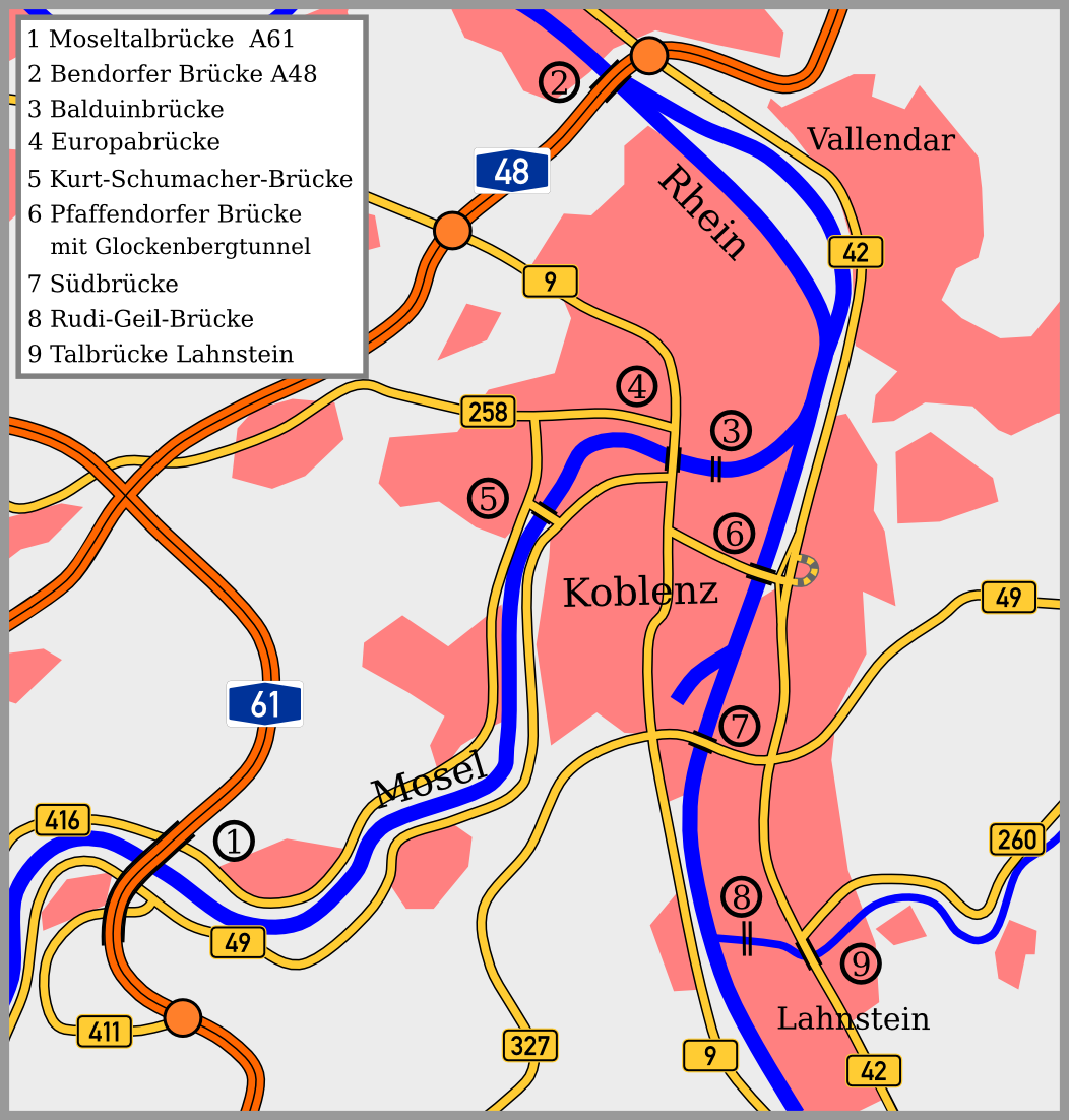 Roads and Brigdes in the area of Koblenz (Germany)